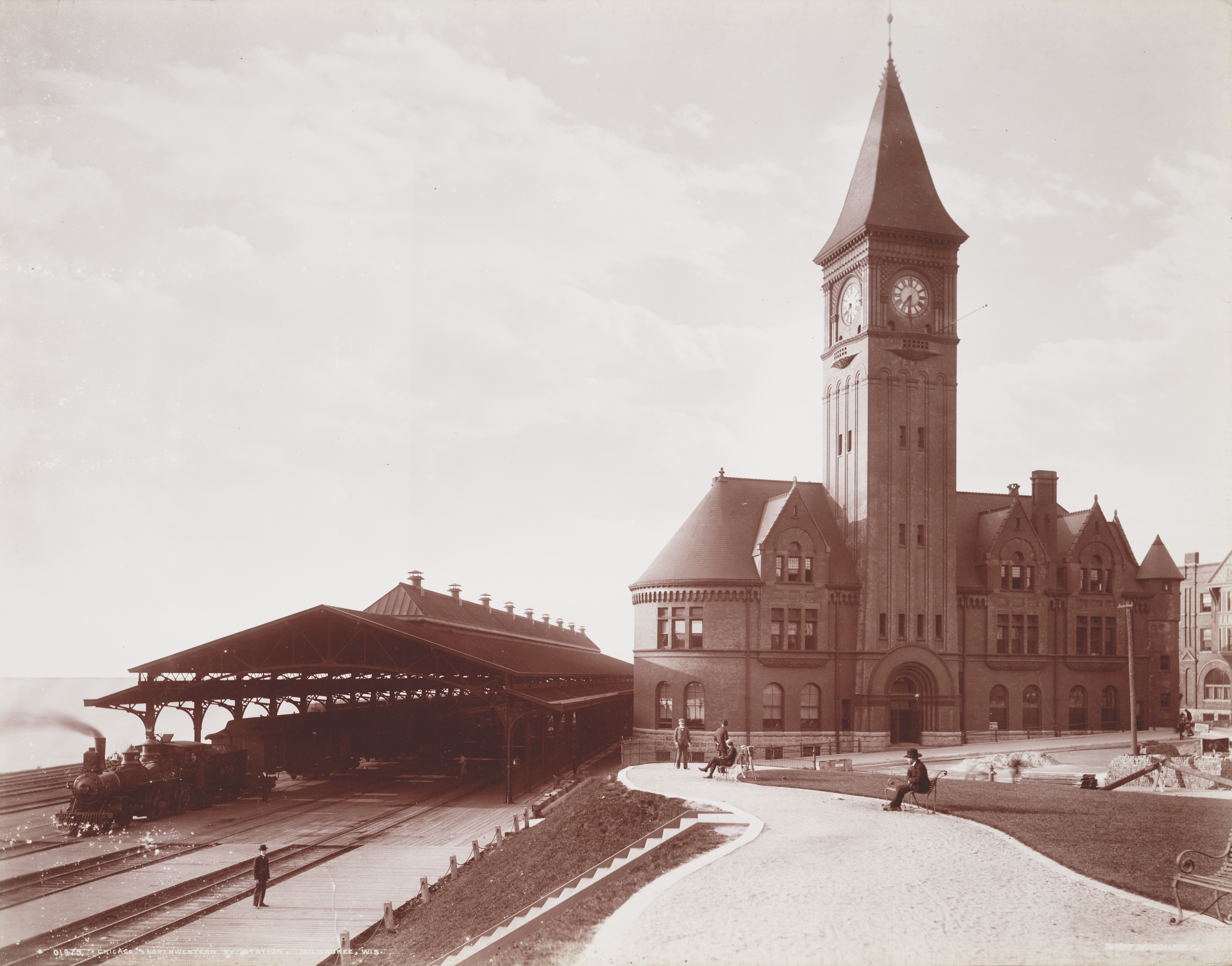 Lake Front Depot in Milwaukee. (Caption: Chicago and Northwestern R.Y. Station, Milwaukee, Wis.)